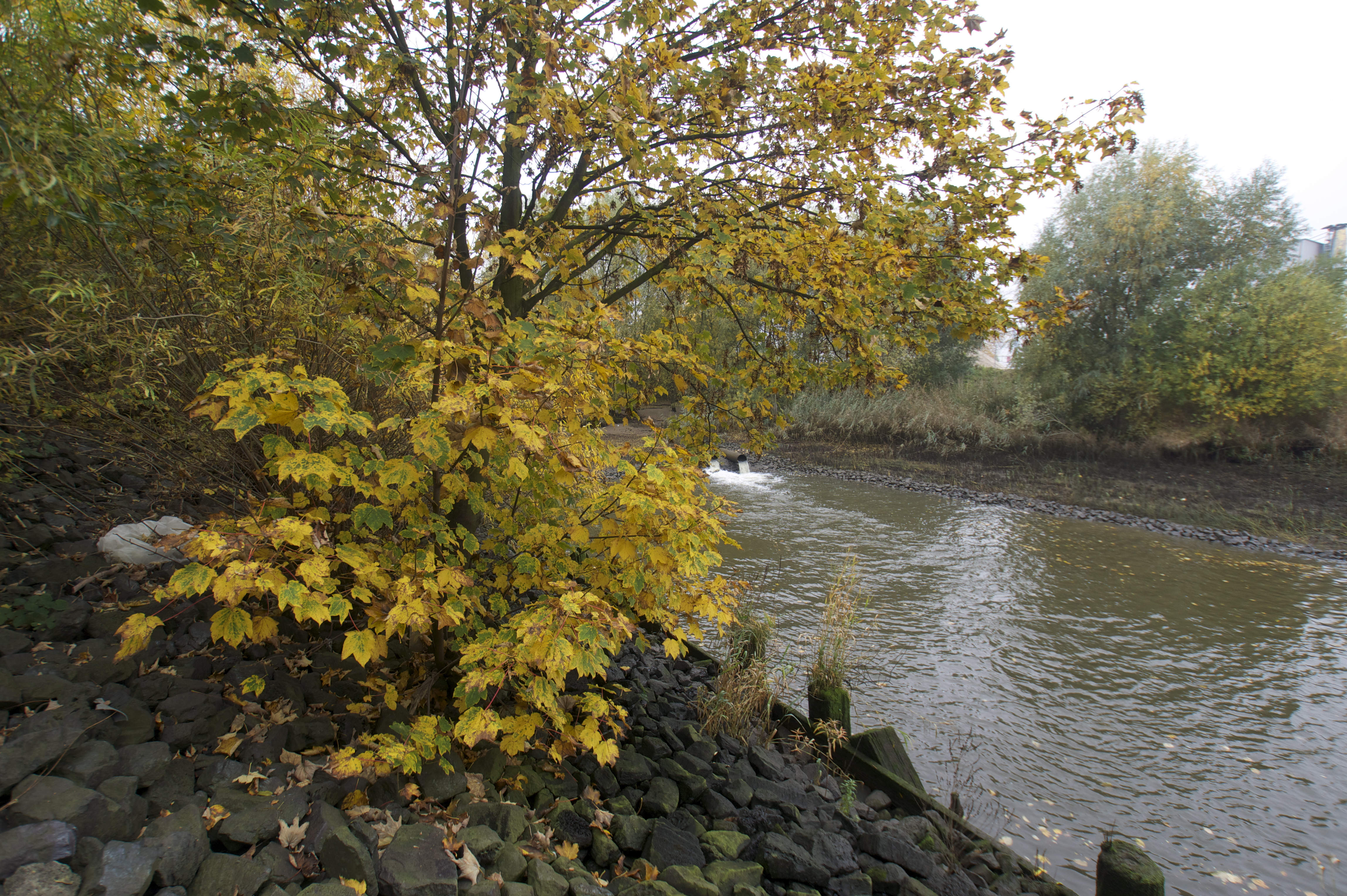 Hamburg (Steinwerder), Germany: The Guanofleet canal